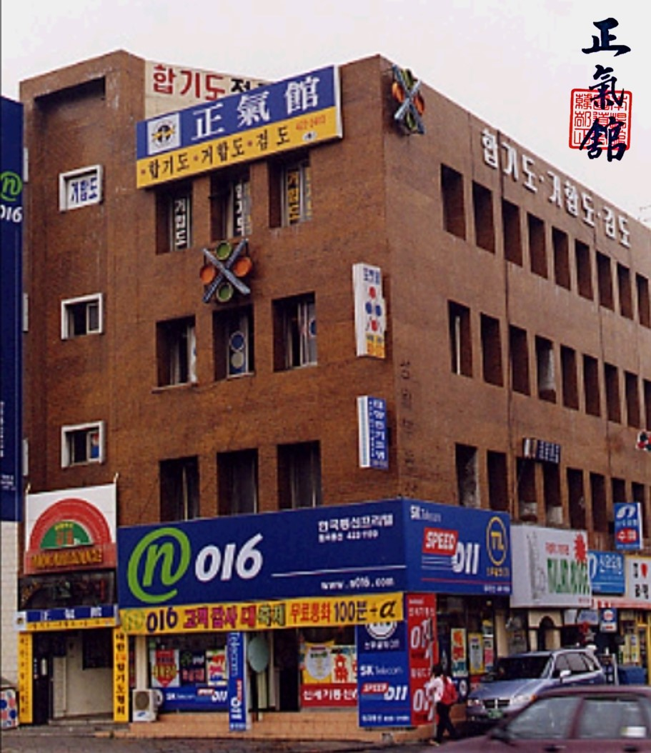 Jungkikwan 2nd dojang